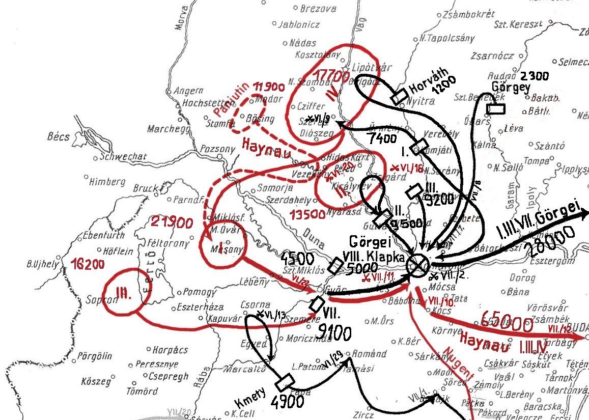 The military situation in the Western Front before the Battle of Pered. Red: Austrian and Russian troops. Black: Hungarians